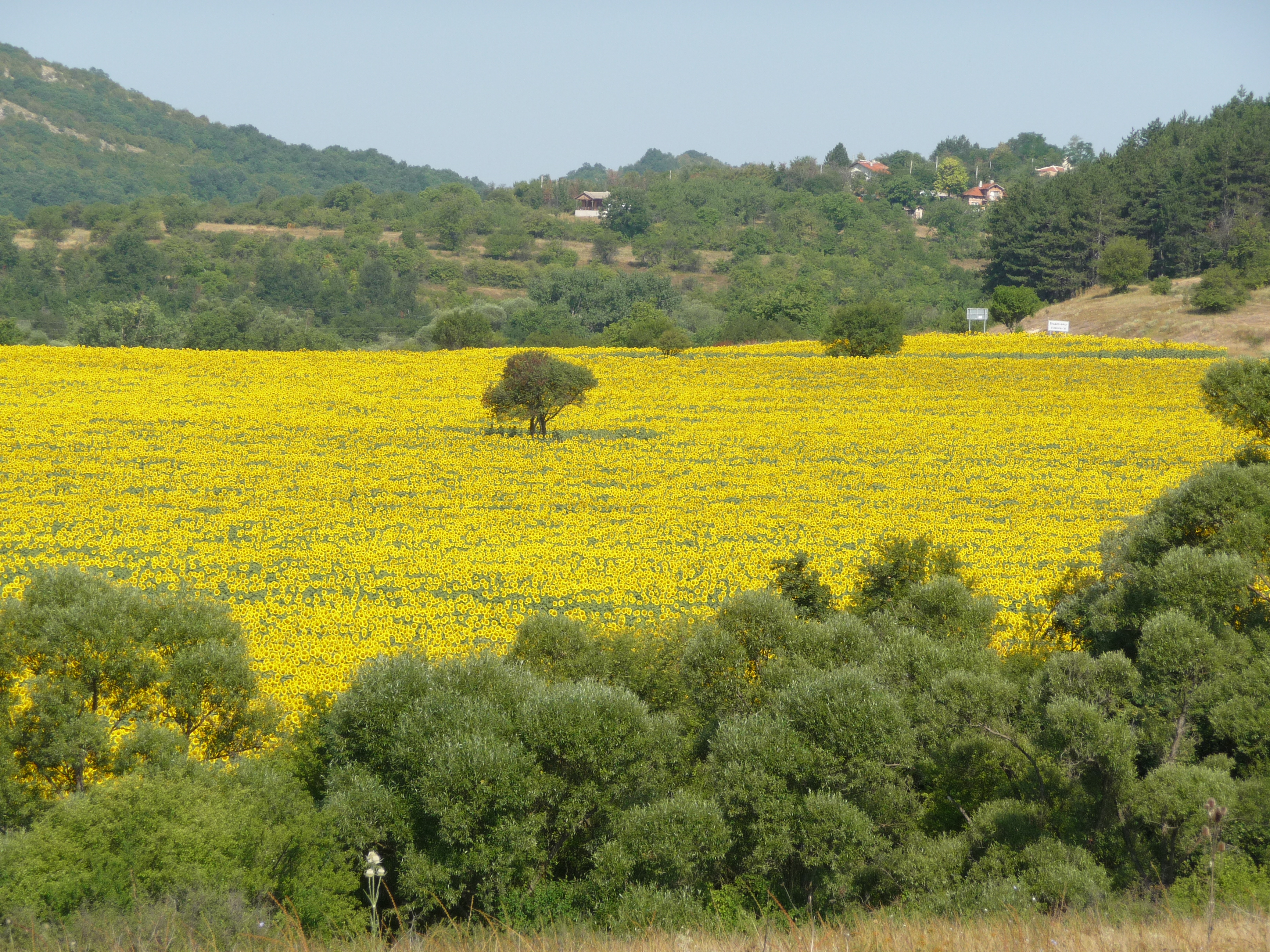 Vladislavtsi